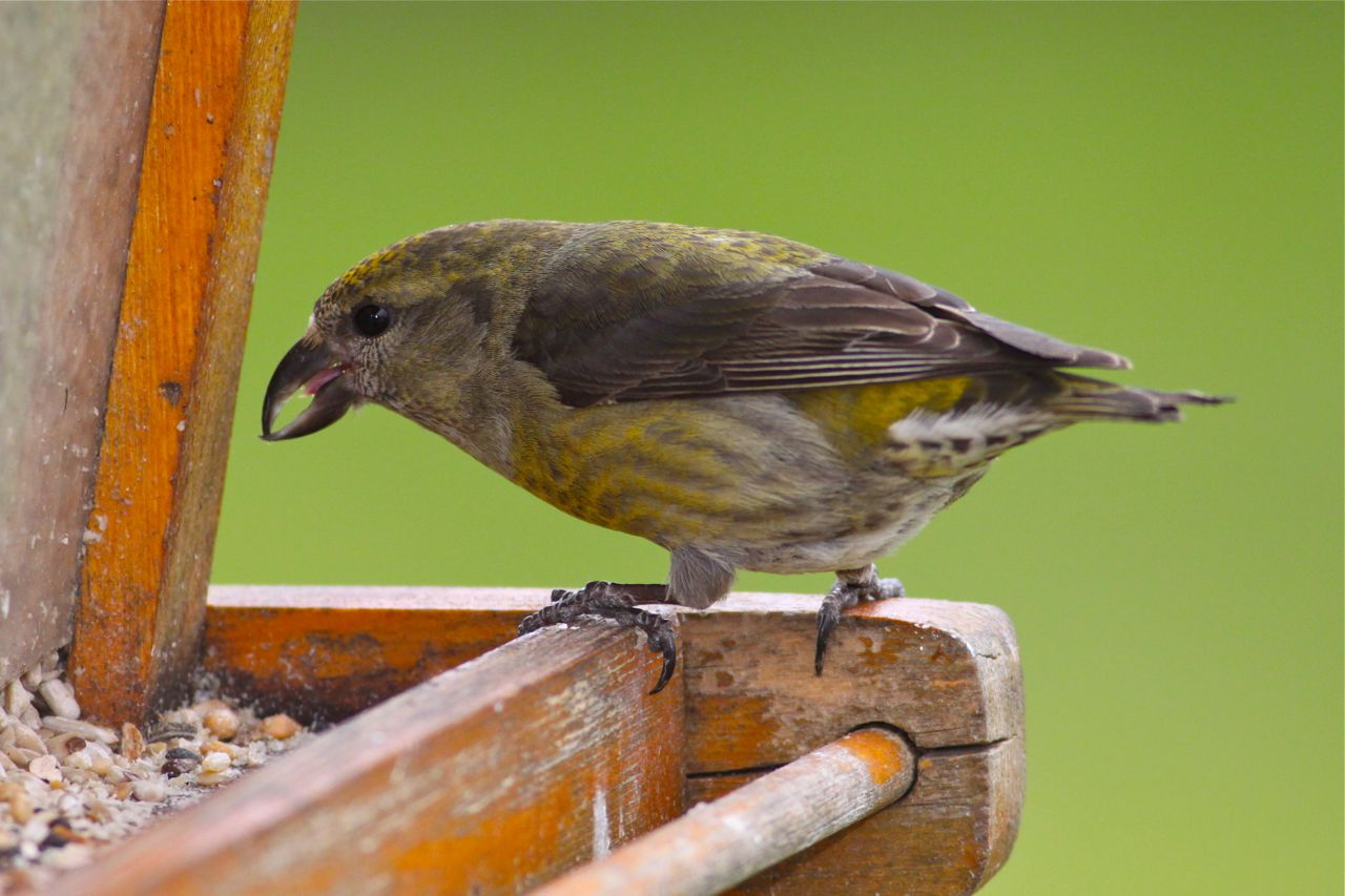 A rare sight at the feeder. Two Hills County, May 21, 2012.